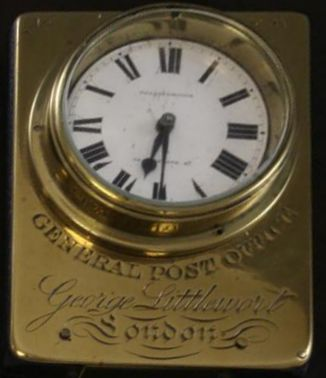 An early 19th century mail coachman's pocket watch, the dial inscribed "Collingridge, Aldersgate St.", within a brass mounted wooden case inscribed "General Post Office, George Littlewort, London, No, 228", 4in.